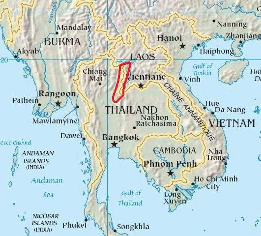 Location of the Luang Prabang Range (Thai: ทิวเขาหลวงพระบาง)